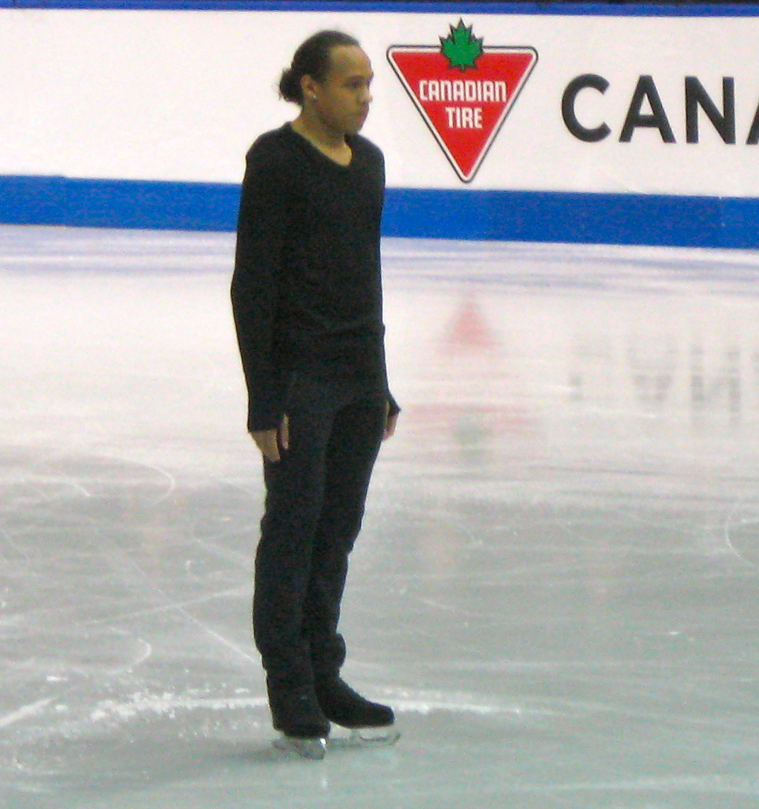 Canadian skater Elladj Baldé about to begin his free skate during the 2013 Canadian Figure Skating Championships at the Hershey Centre in Mississauga, Ontario